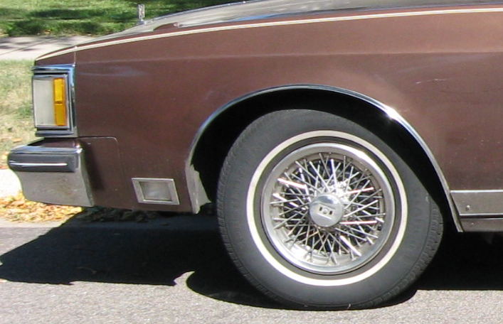 A cornering lamp on a 1983 Oldsmobile 98 Regency.